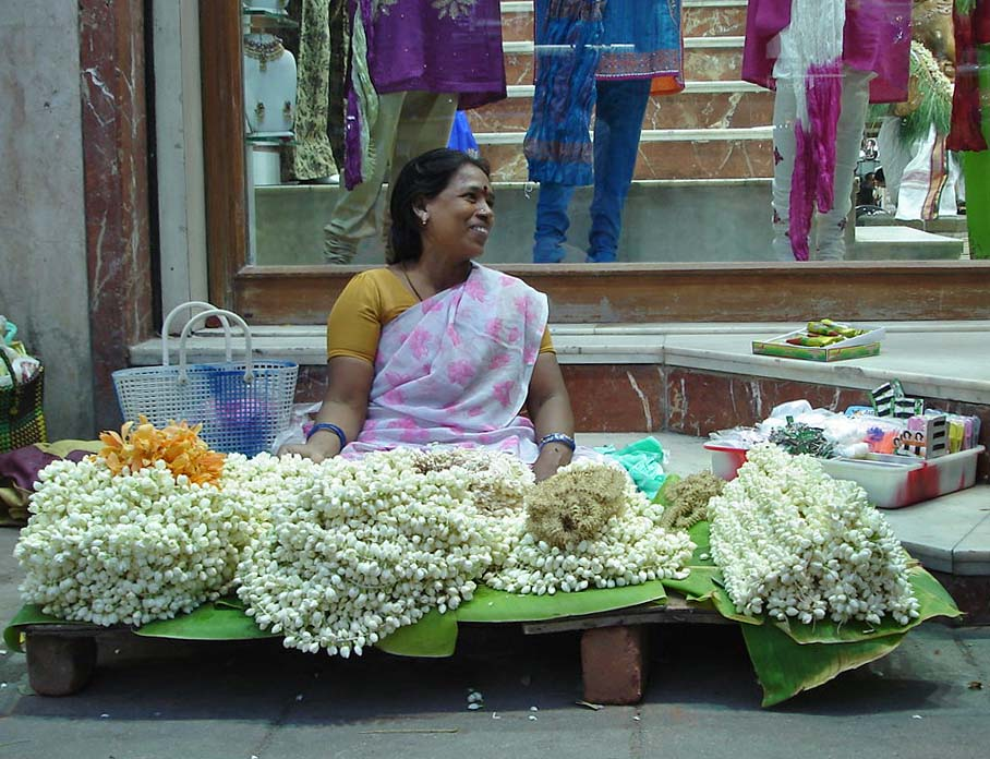 A woman sells jasmine flowers at Pondy Bazaar in Chennai, India